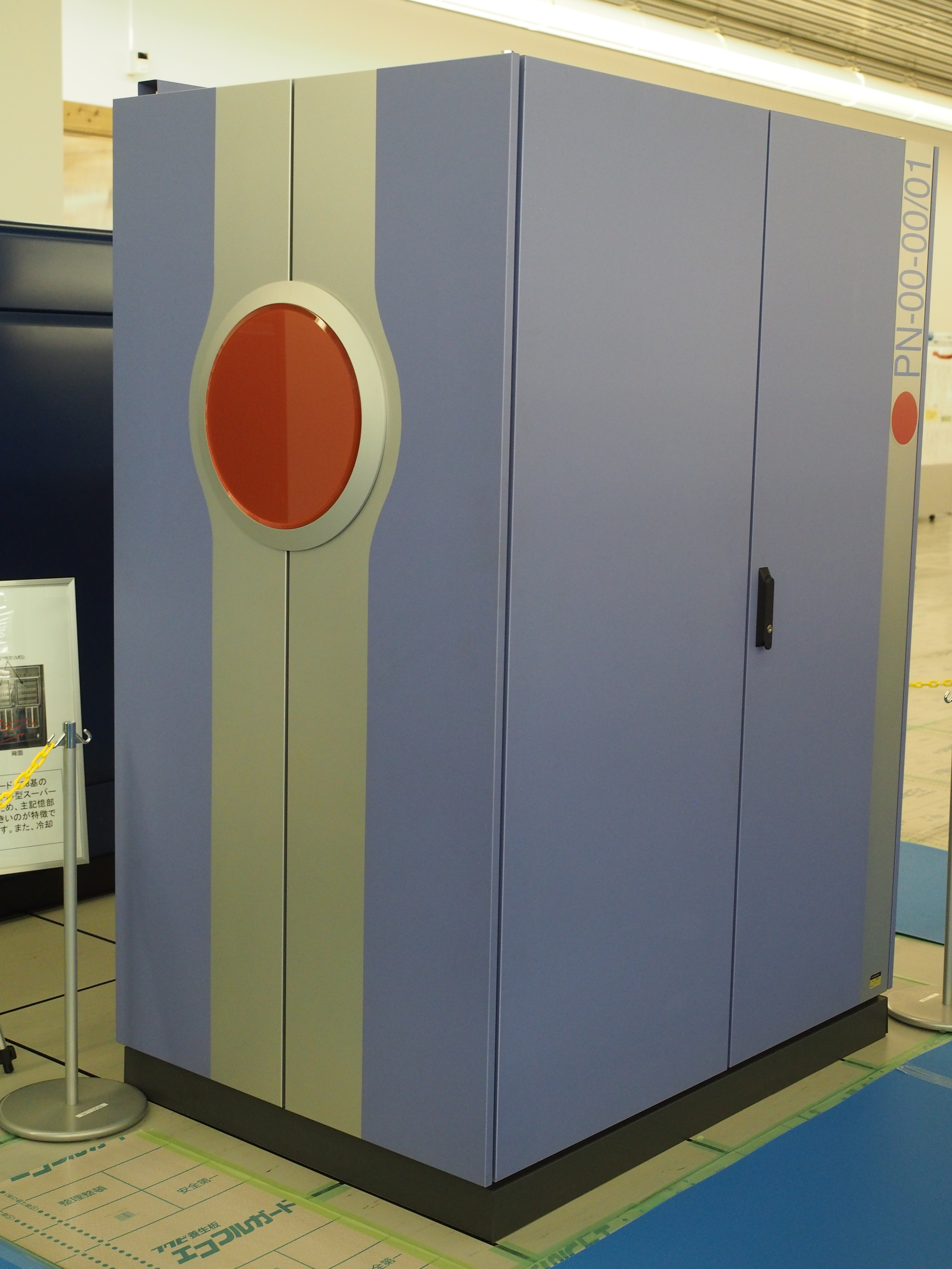 A rack of computational nodes of Earth Simulator (first generation), now exhibited for display. Photographed on the open house day of JAMSTEC Yokohama Institute for Earth Sciences.